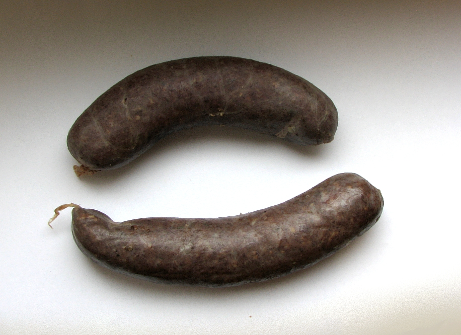 Polish balack budding